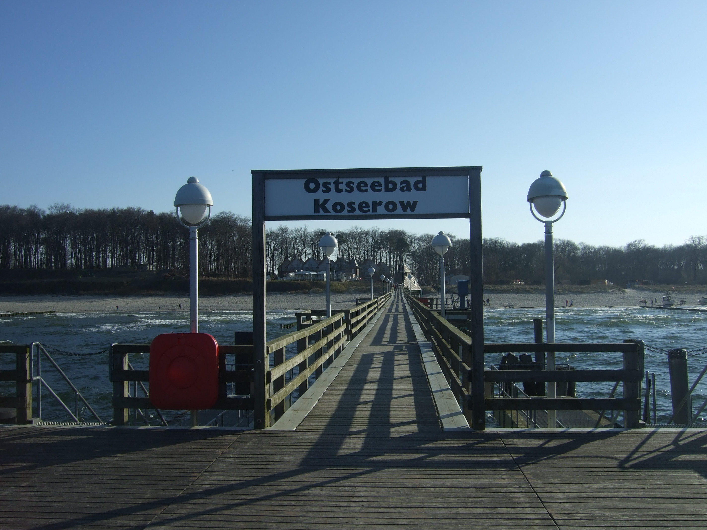 View from head of sea bridge Koserow, Mecklenburg-Vorpommern, Germany southwest.